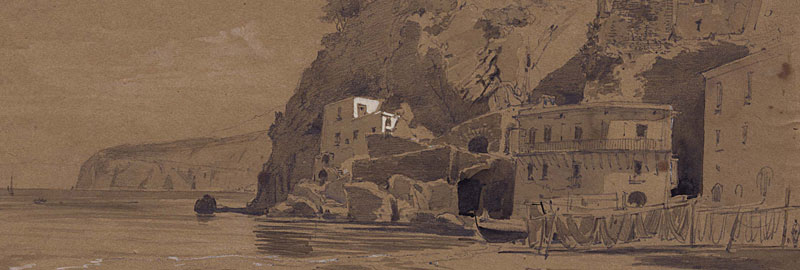 Sketch by Duclere depicting a Sorrento scenery, in Italy